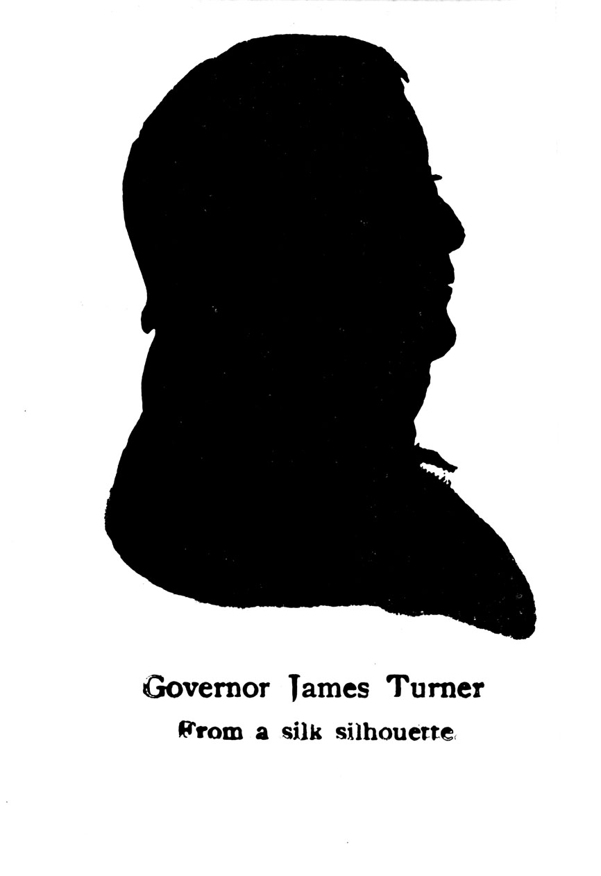 James Turner, 1802 - 1805 From the General Negative Collection, State Archives of North Carolina, Raleigh, NC.